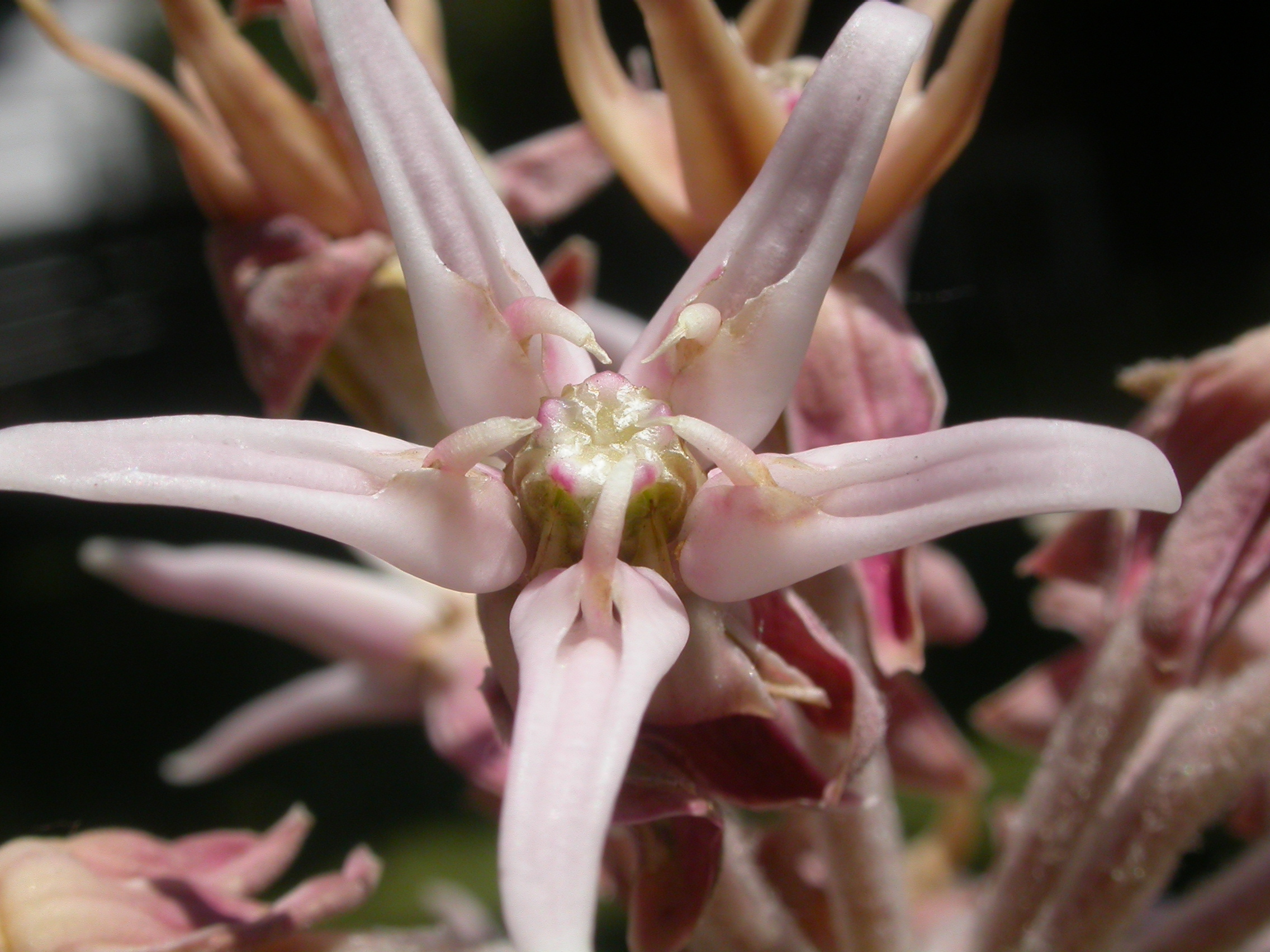 The sepals and petals are reflexed (bent back and downward) and the staminal hoods and horns project upward.